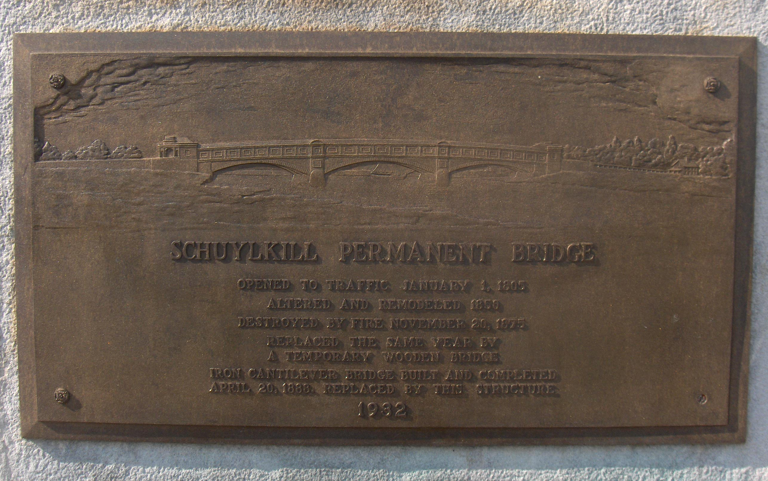 Placque on the Market Street Bridge (Philadelphia) describing and illustrating the Schuylkill Permanent Bridge, Opened 1805, remodeled 1856, and destroyed by fire, 1875.